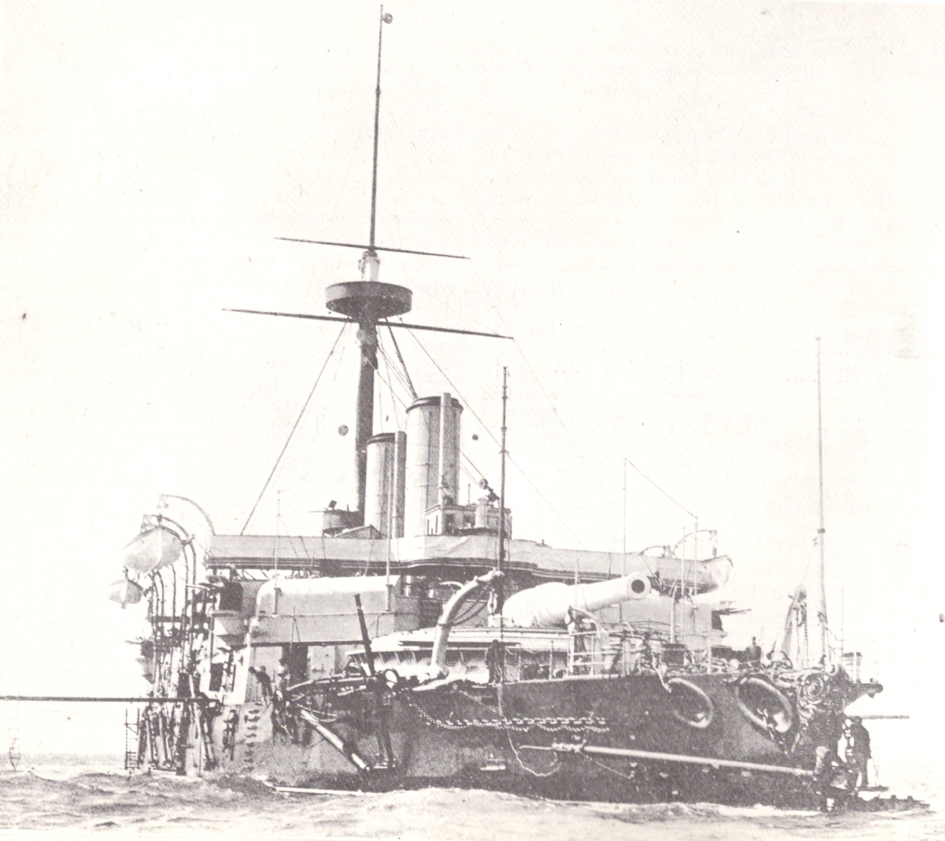 A starboard bow view of the British battleship , prominently displaying her forward 110-ton breech-loading rifle mounted in an open-topped barbette